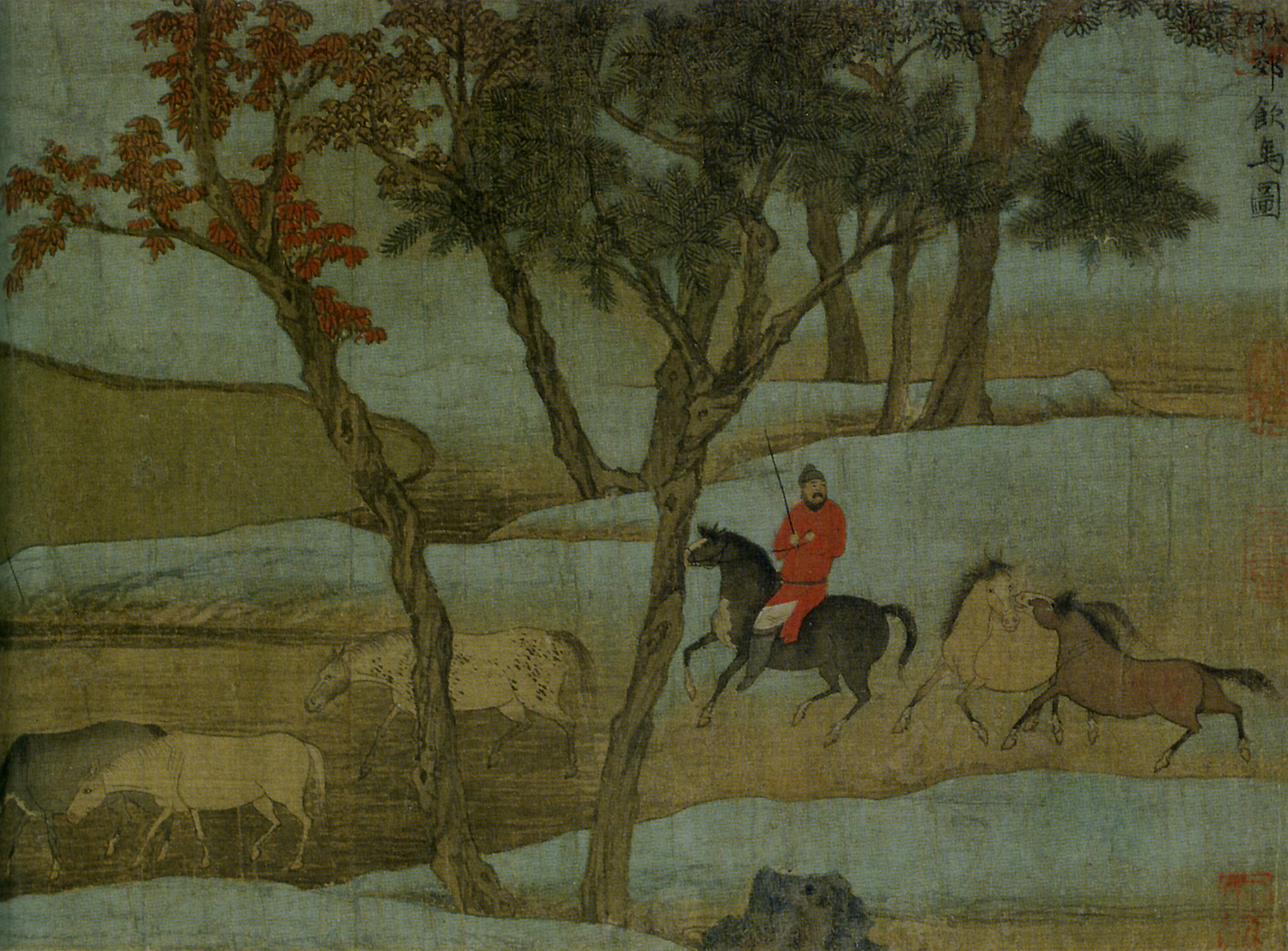 Zhao Mengfu. Horse Herding in Autumn Countryside, 1312 23,6х59см. Section. Palace Museum, Beijing.